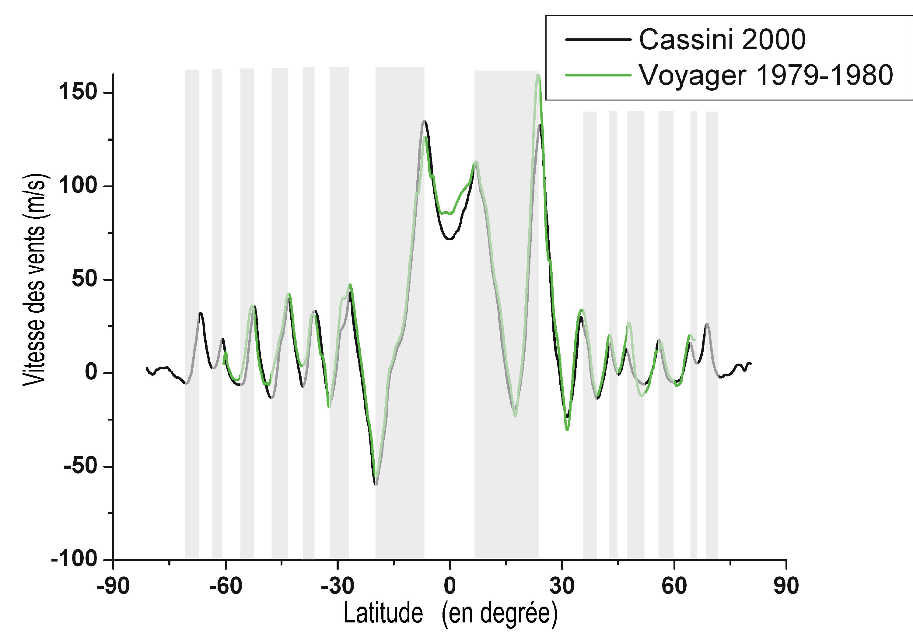 Zonal wind speeds in the atmosphere of Jupiter. The results of the Voyager and Cassini missions are shown. The shaded areas correspond to the locations of belts. Source: Vasavada, Ashvin R.; Showman, Adam (2005). "Jovian atmospheric dynamics: an update after Galileo and Cassini". Reports on Progress in Physics 68: 1935–1996.